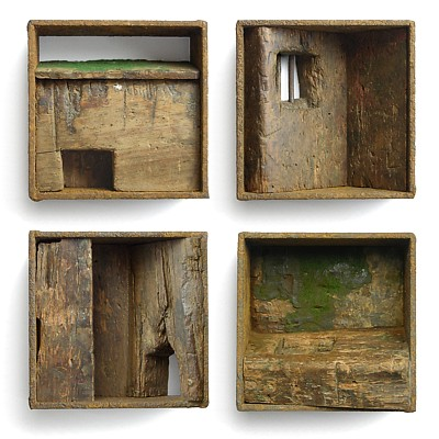 Laszlo Szlavics, Jr.: On the road I.-IV., wood, iron, textile, mixed technique, 120 x 120 mm, 2005